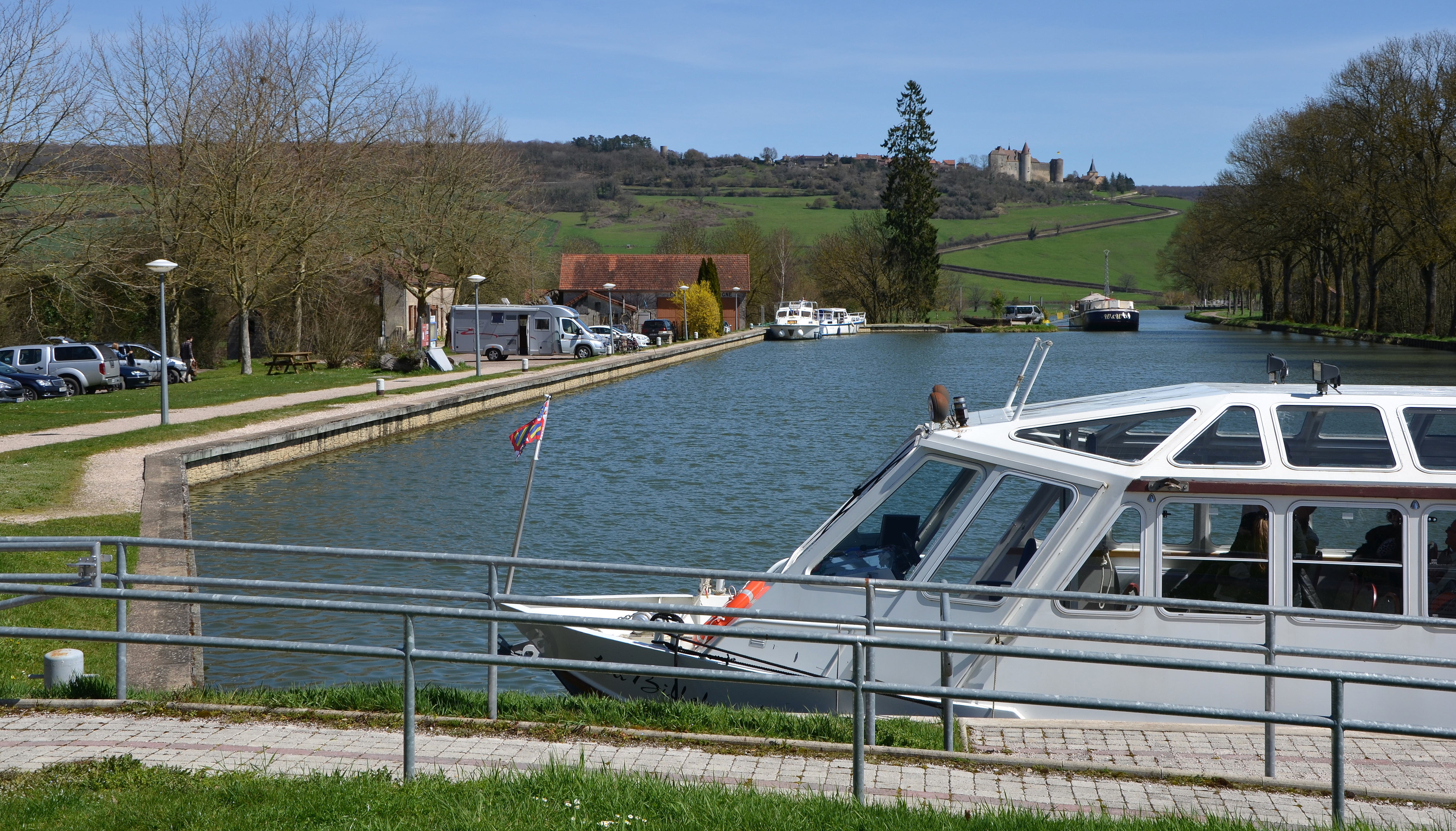 Canal de Bourgogne in Vandenesse, Côte d'Or, Bourgogne, France